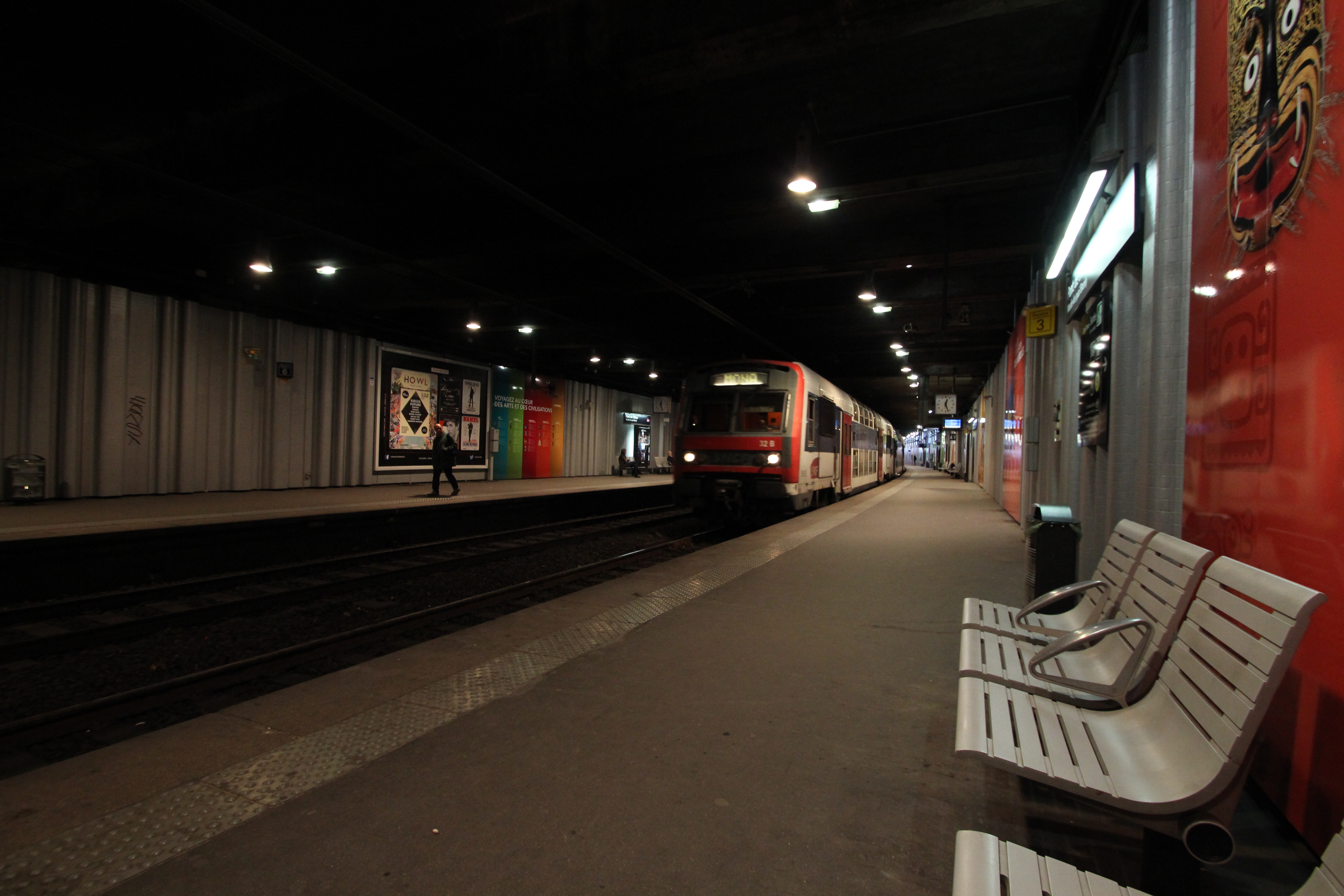 Train arriving at the Pont de l'Alma station in Paris, France. Object location48° 51′ 45.43″ N, 2° 18′ 01.3″ E